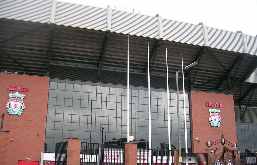 Walton Breck Road, Anfield Stadium - the home of English football club Liverpool.